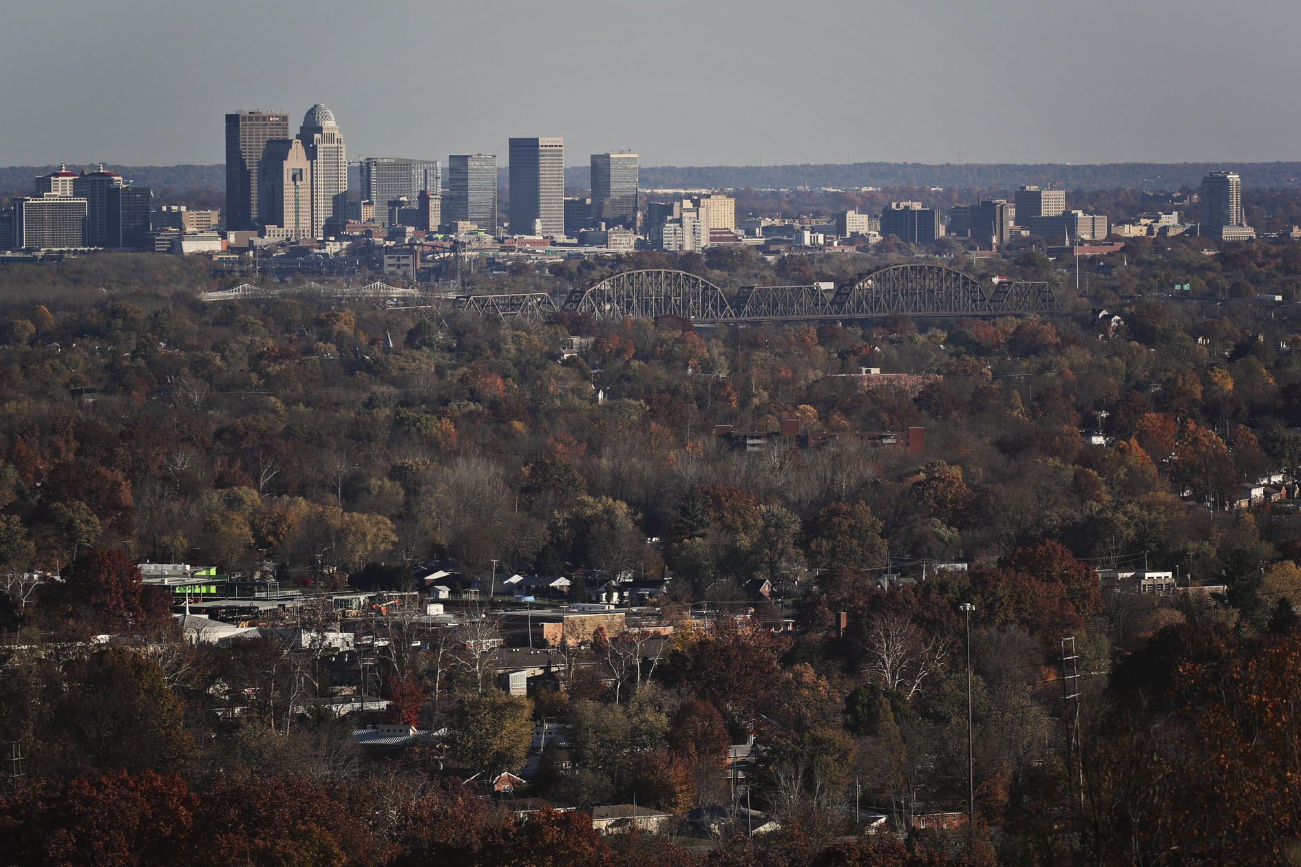 The view of New Albany and downtown Louisville from Floyds Knobs, Indiana in Floyd County. The K&I railroad bridge can be seen as well.